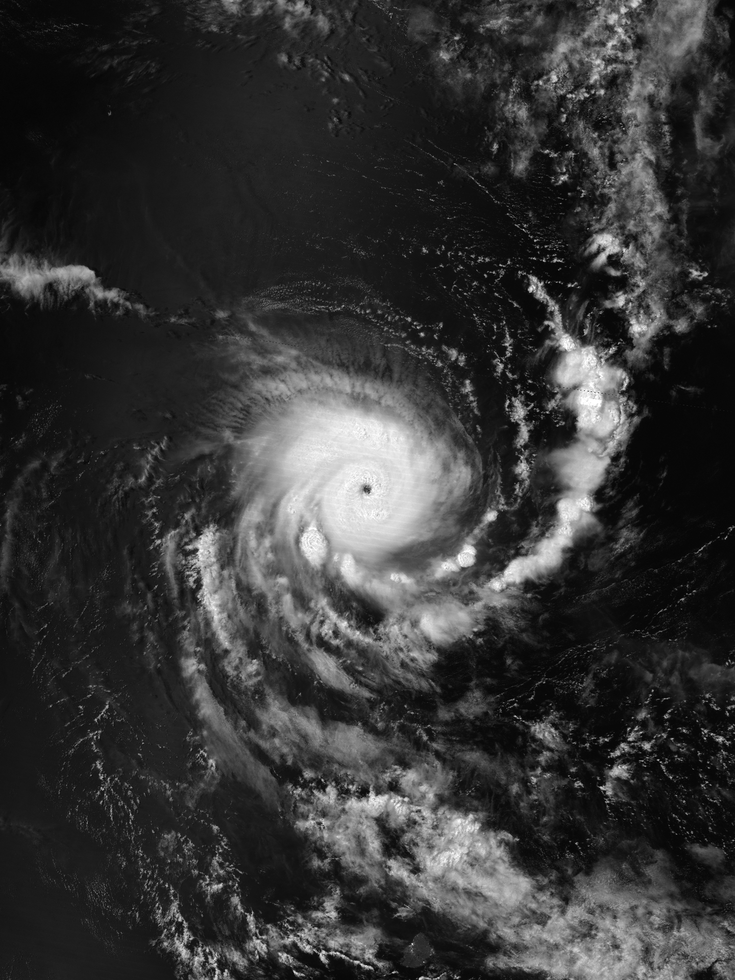 Intense Tropical Cyclone Fantala north of Mauritius at night on 21 April 2016.